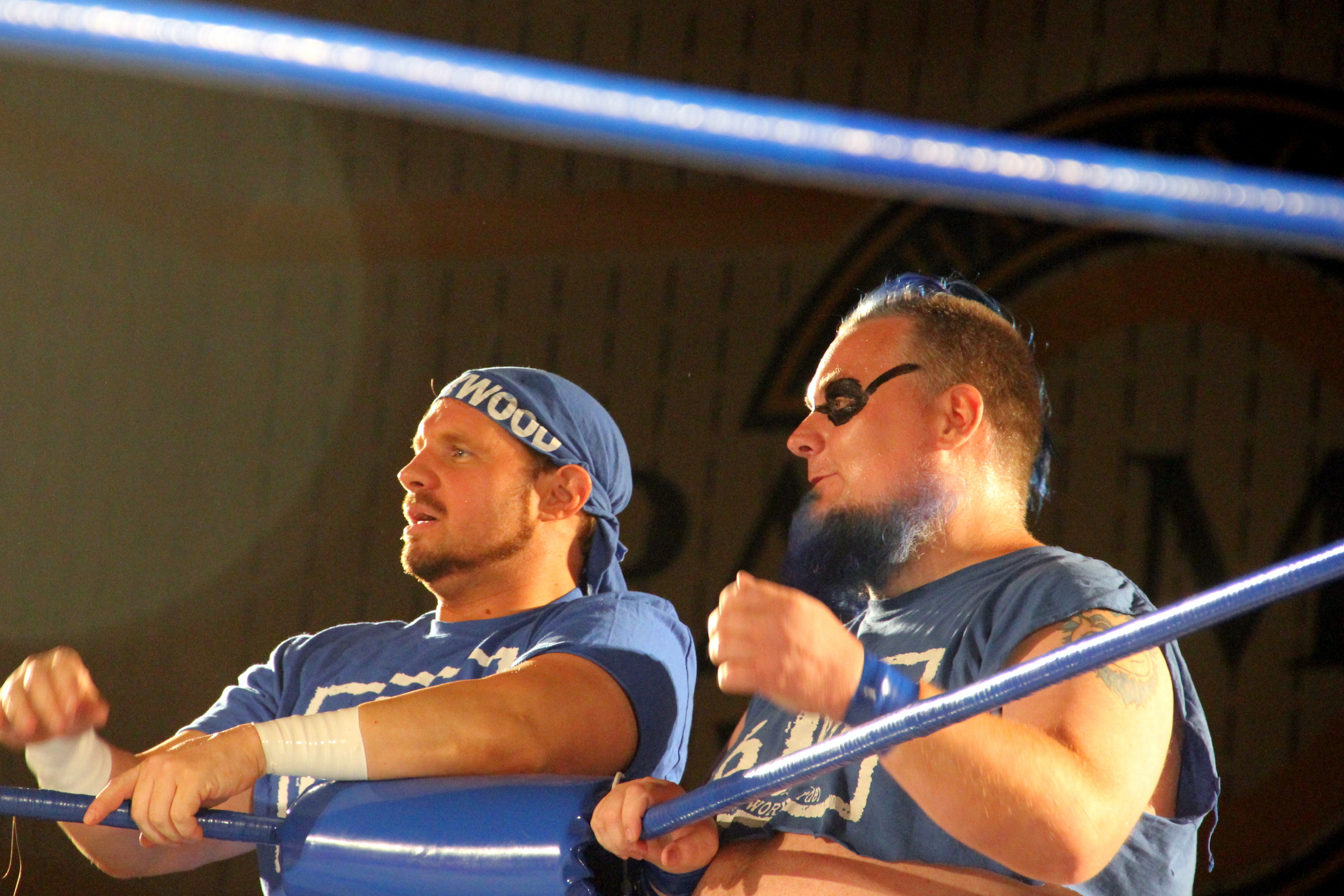 Nova (left) and The Blue Meanie at Chikara's King of Trios show in September 2015.